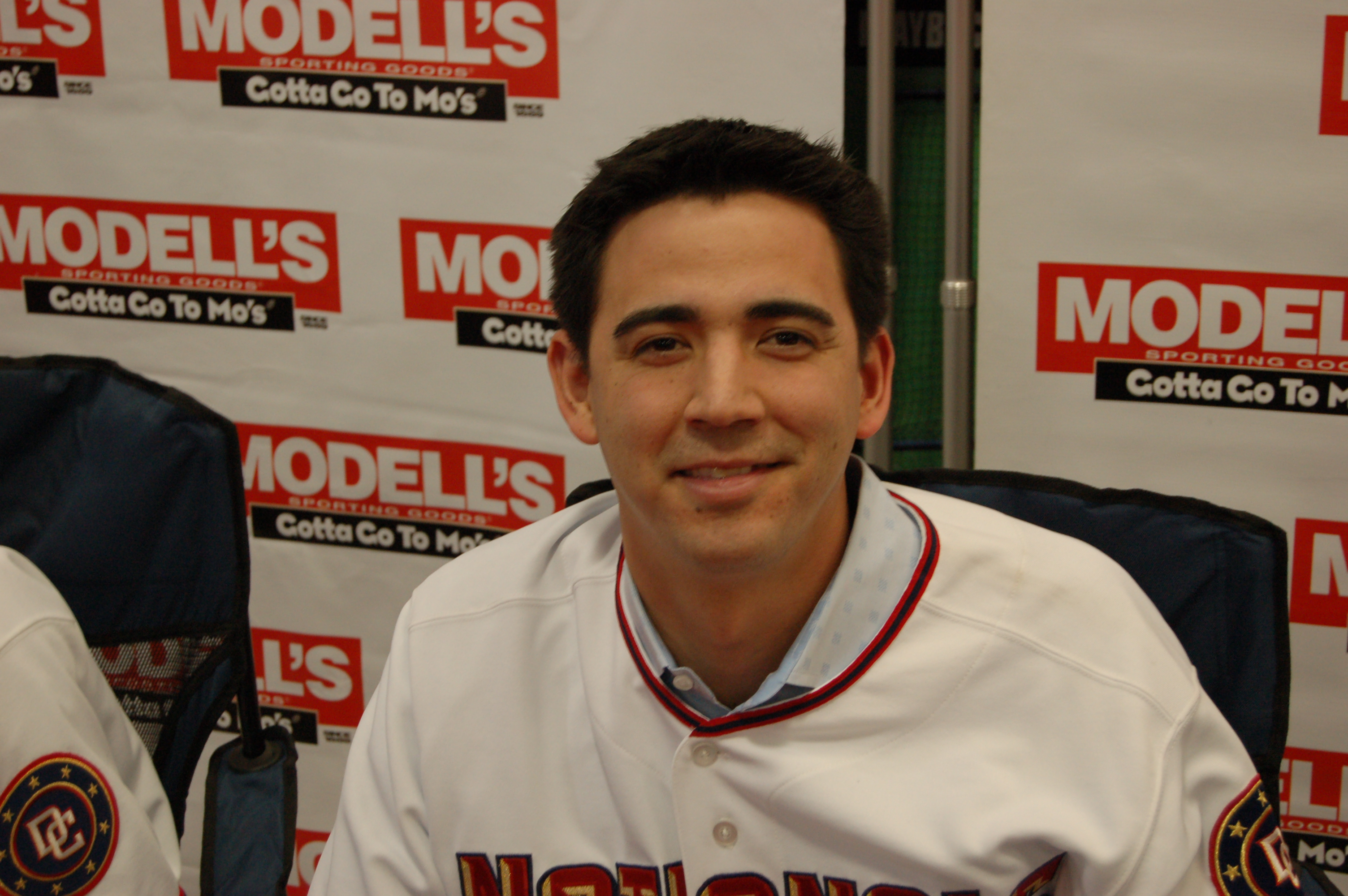 Mike O'Connor poses for a quick picture after he signed my Nats hat.O'Connor poses